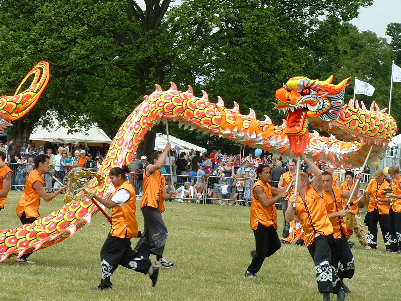 As part of HRH The Queen's Jubilee Celebrations, Nam Yang Pugilistic Association performed a dragon and lion dance together with a kung fu demonstration at Hampton Court Park